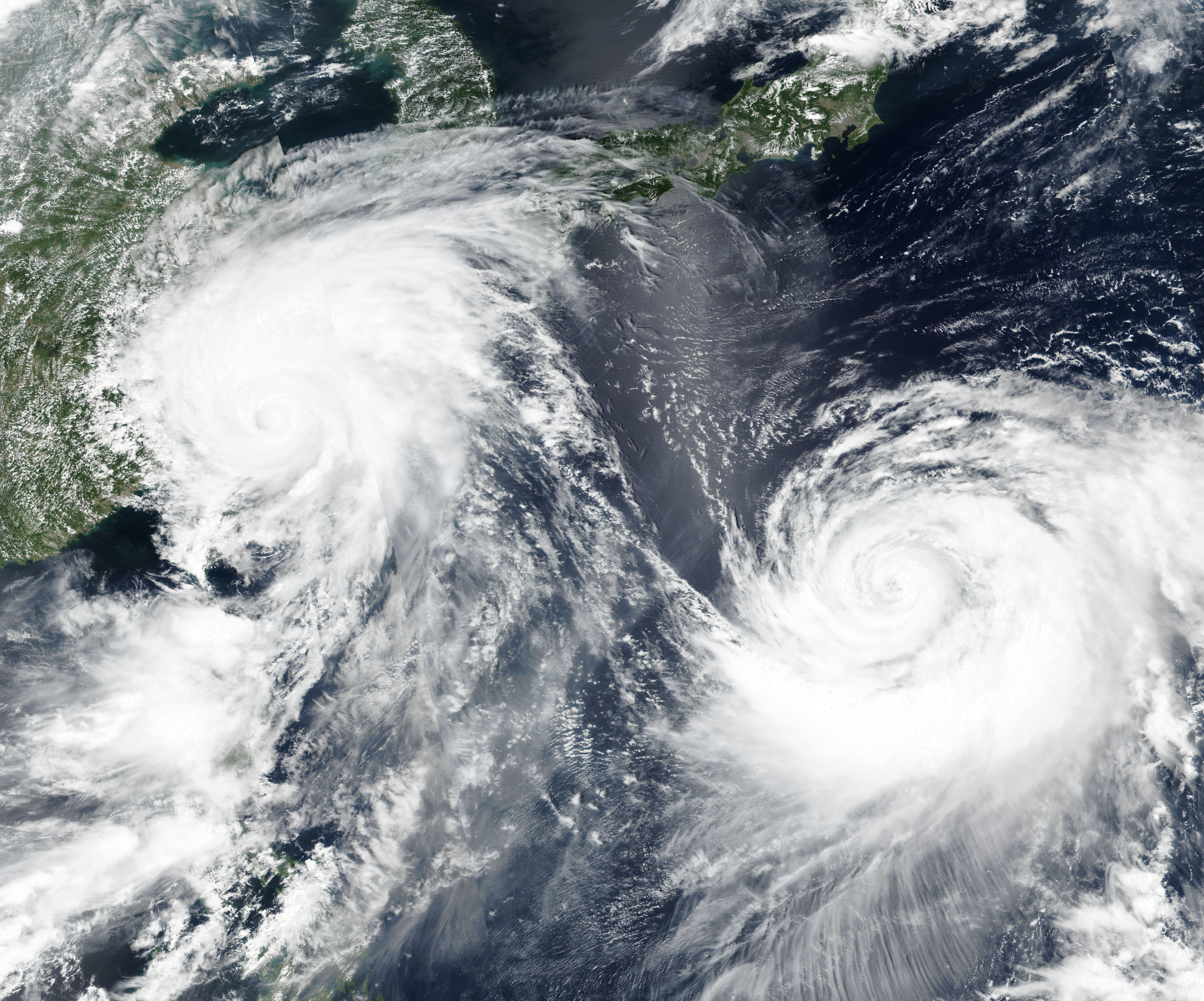 Typhoons Lekima (11W) and Krosa (12W) in the northwest Pacific